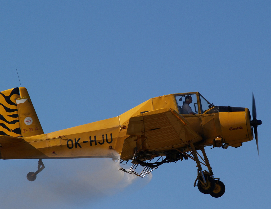 Air sprayer; Registration: OK-HJU; Zlin-37A